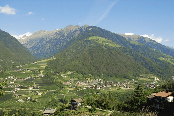 Riffian - Kuens Passeiertal. Seen from Schenna (Scena) heading northwest.